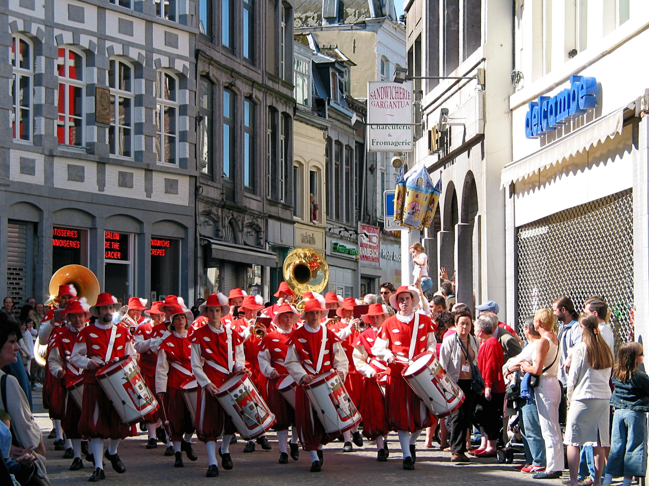 Mons (Belgium), the procession of the Golden Car.